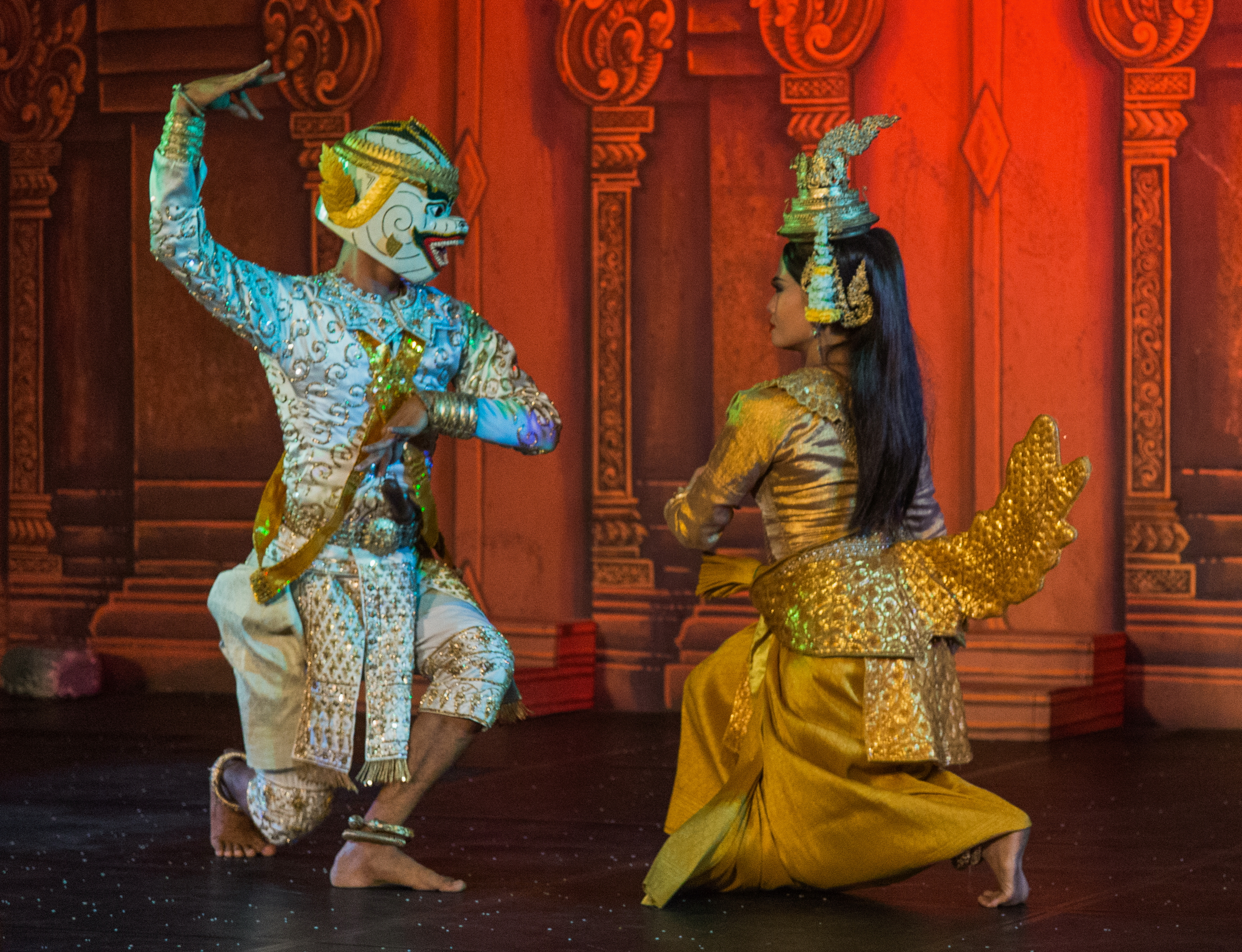 Traditional Cambodian Dance Show - Golden Mermaid Dance. Phnom Penh, Cambodia.